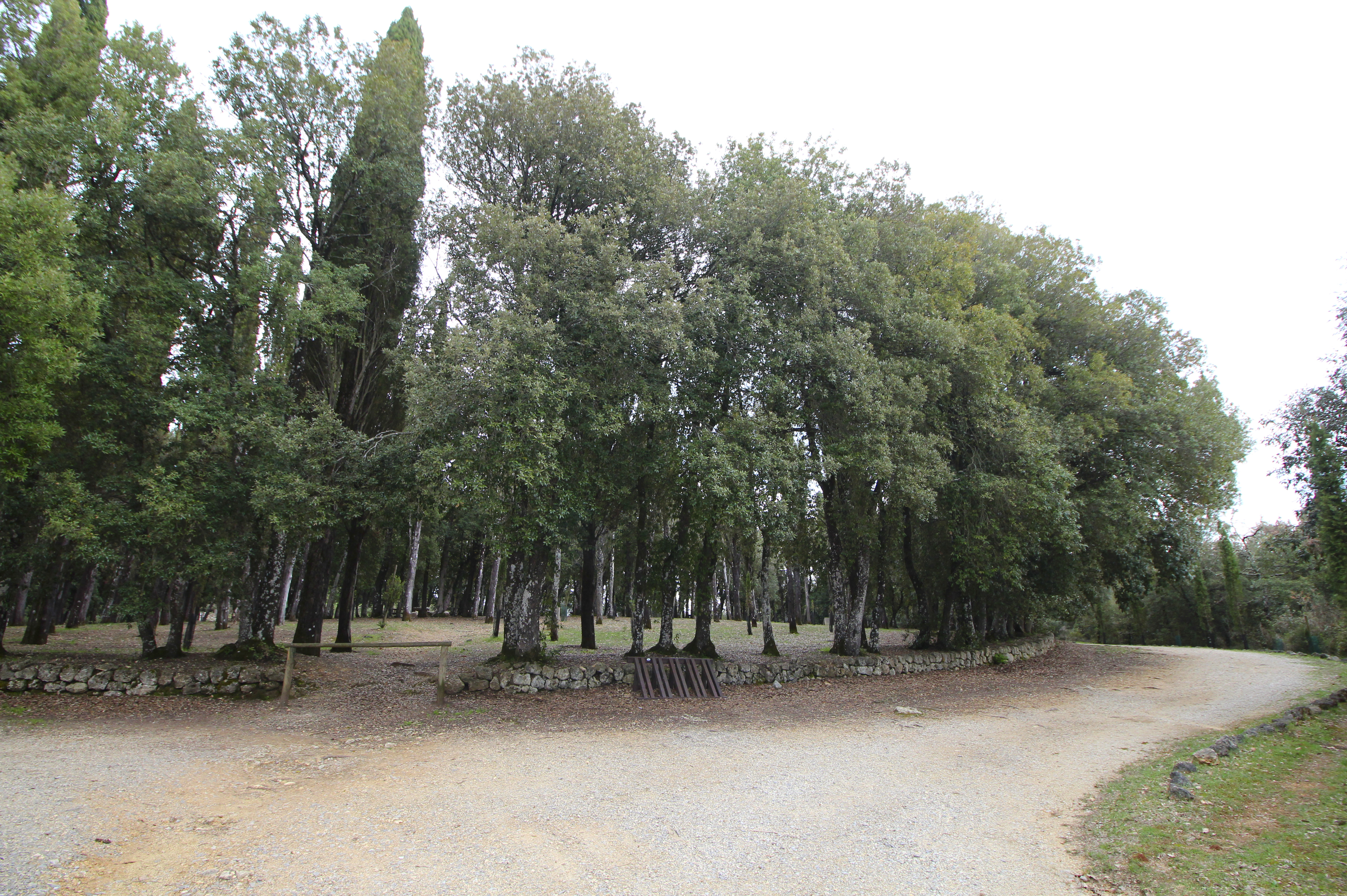 Wood and Garden Il Tondo, Montefollonico, hamlet of Torrita di Siena, Province of Siena, Tuscany, Italy